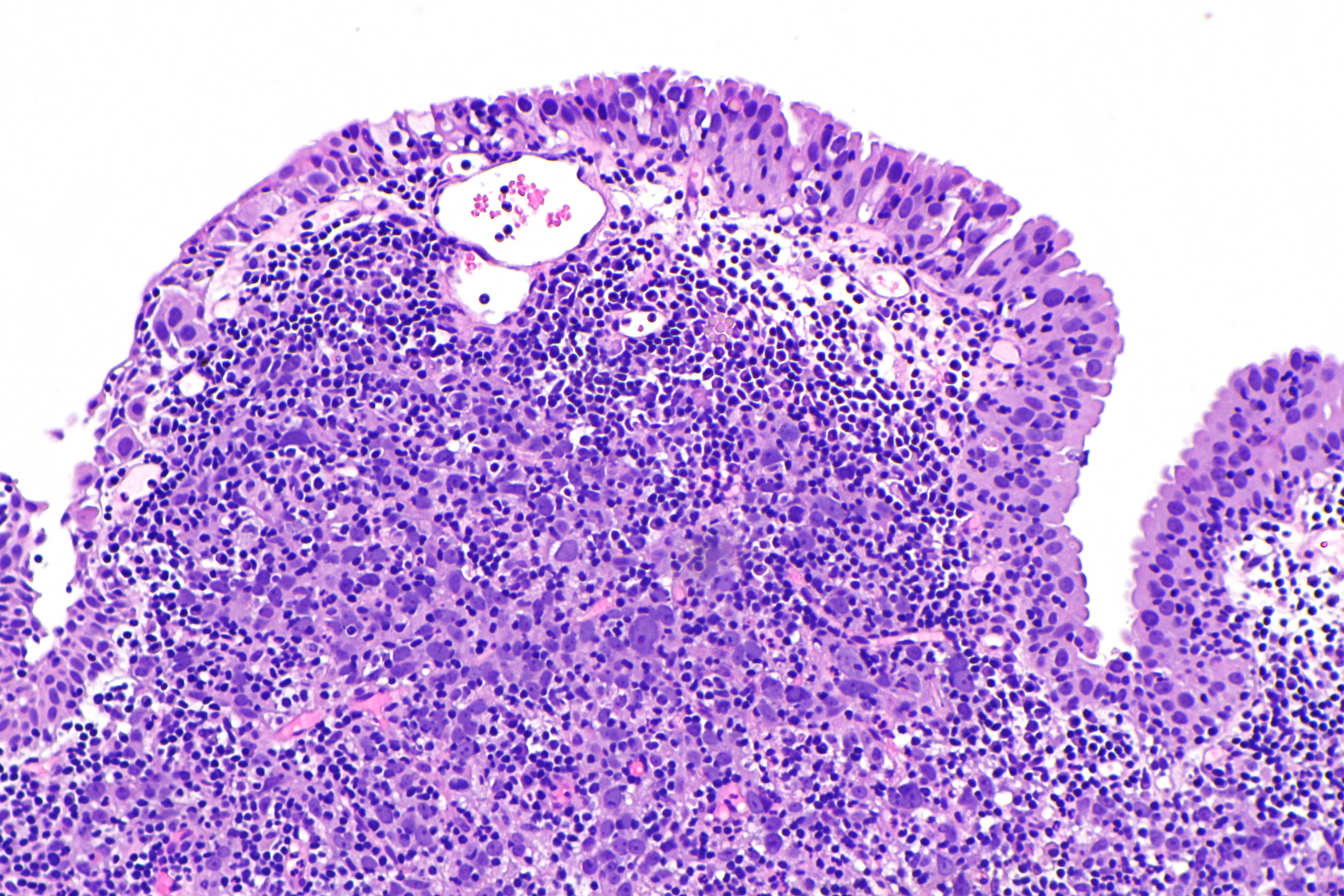 Micrograph showing lymphoepithelioma-like carcinoma of the urinary bladder. H&E stain. Lymphoepithelioma-like carcinoma (LELC) is a variant of urothelial carcinoma. Related images UBLELC - very low mag. UBLELC - low mag. UBLELC - intermed. mag. UBLELC - intermed. mag. UBLELC - intermed. mag. UBLELC - high mag. UBLELC - very high mag.